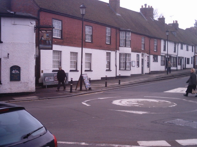 Pyke House, Lower Lake, Battle. Formerly part of a charitable endowment for the education of the people of Battle and part of Hastings College, which became Sussex Coast College Hastings. Now part of Claremont School. The property is a grade II listed building. Listing NGR: TQ7515015708